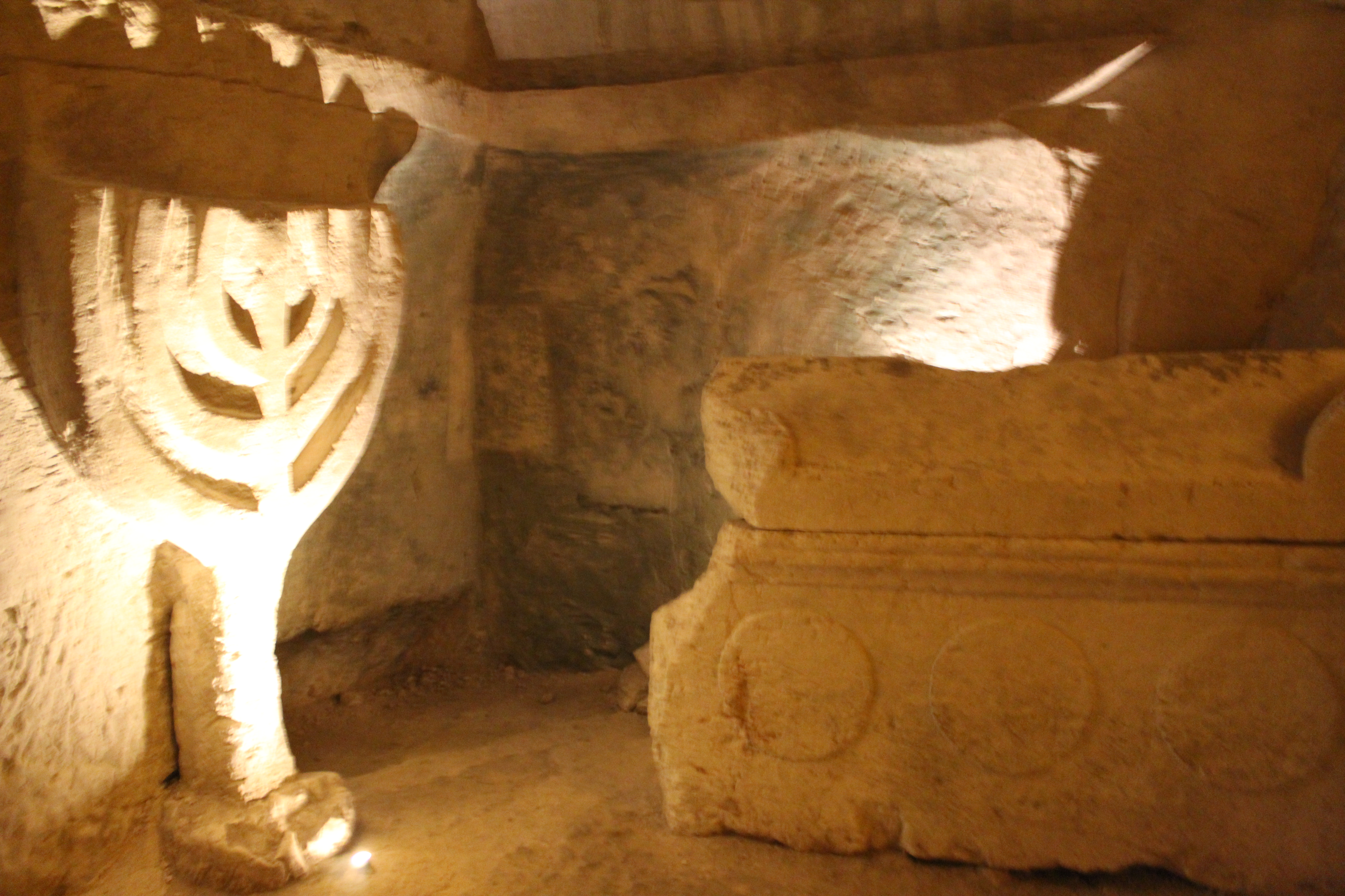 Chamber in Catacomb no. 20, showing sarcophagus and menorah at the Beit Shearim necropolis (the intermediate shaft between the stand of the menorah and its seven prongs is the only reconstruction)